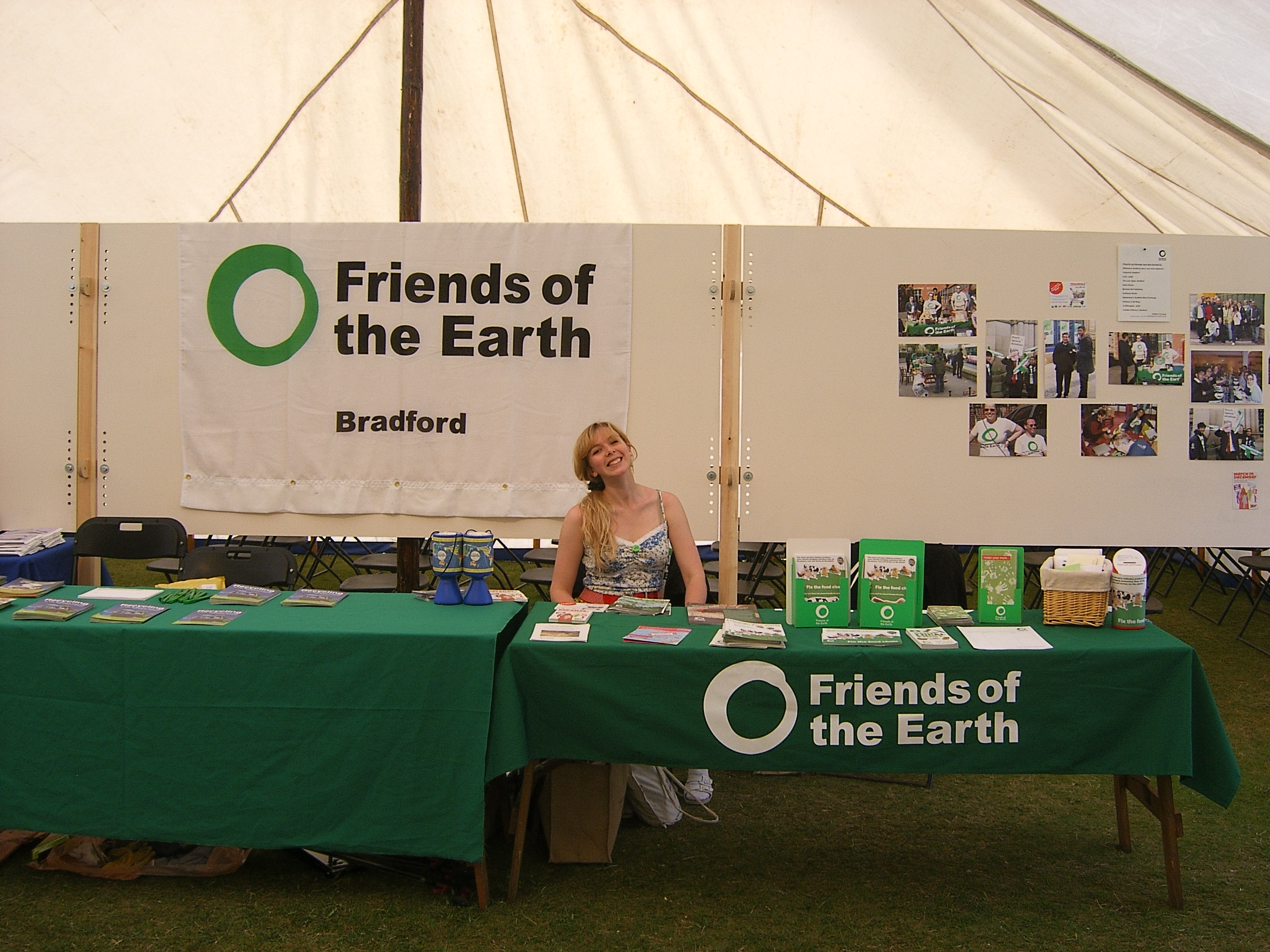 Friends of the Earth stall.